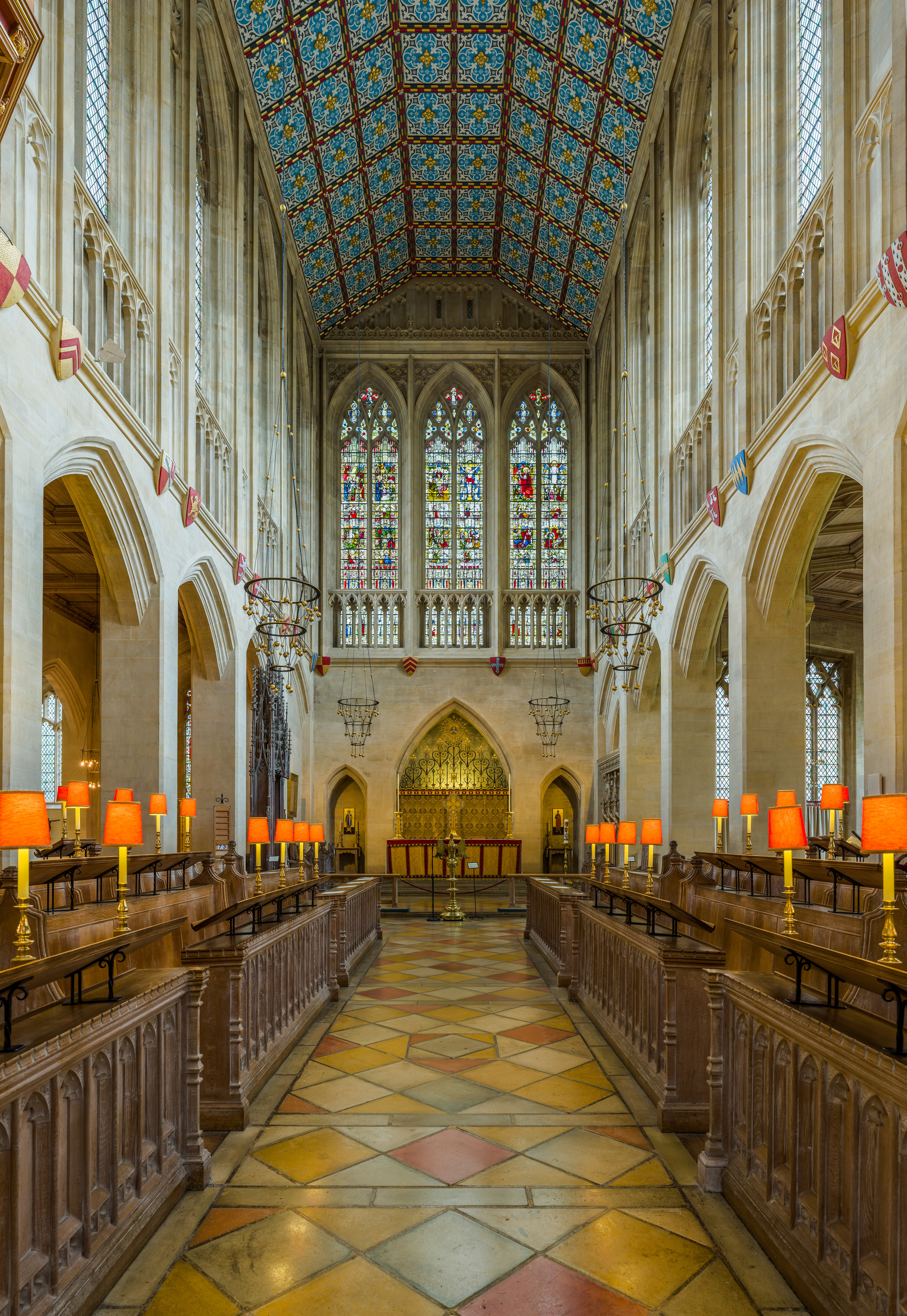 The choir of St Edmundsbury Cathedral in Suffolk, England, looking west towards the high altar.